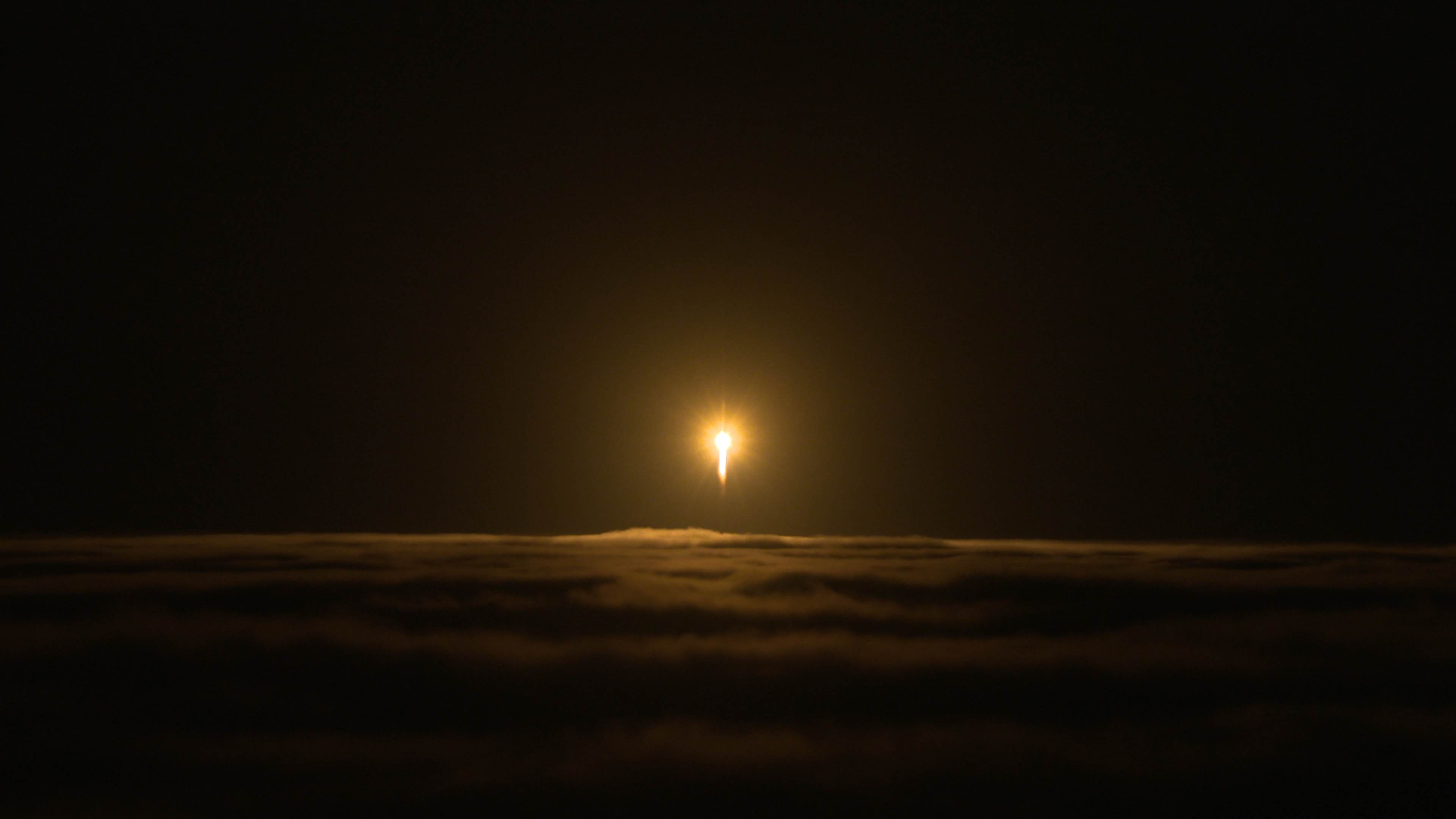 A United Launch Alliance Atlas V rocket lifts off from Space Launch Complex 3 at Vandenberg Air Force Base, California, carrying NASA's Interior Exploration using Seismic Investigations, Geodesy and Heat Transport, or InSight, Mars lander. Liftoff was at 4:05 a.m. PDT (7:05 a.m. EDT). The spacecraft will be the first mission to look deep beneath the Martian surface. It will study the planet's interior by measuring its heat output and listen for marsquakes. InSight will use the seismic waves generated by marsquakes to develop a map of the planet’s deep interior. The resulting insight into Mars’ formation will provide a better understanding of how other rocky planets, including Earth, were created.